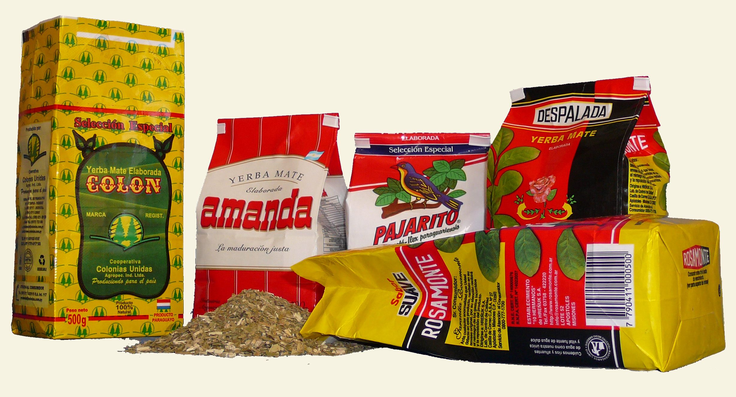 Packets of yerba mate